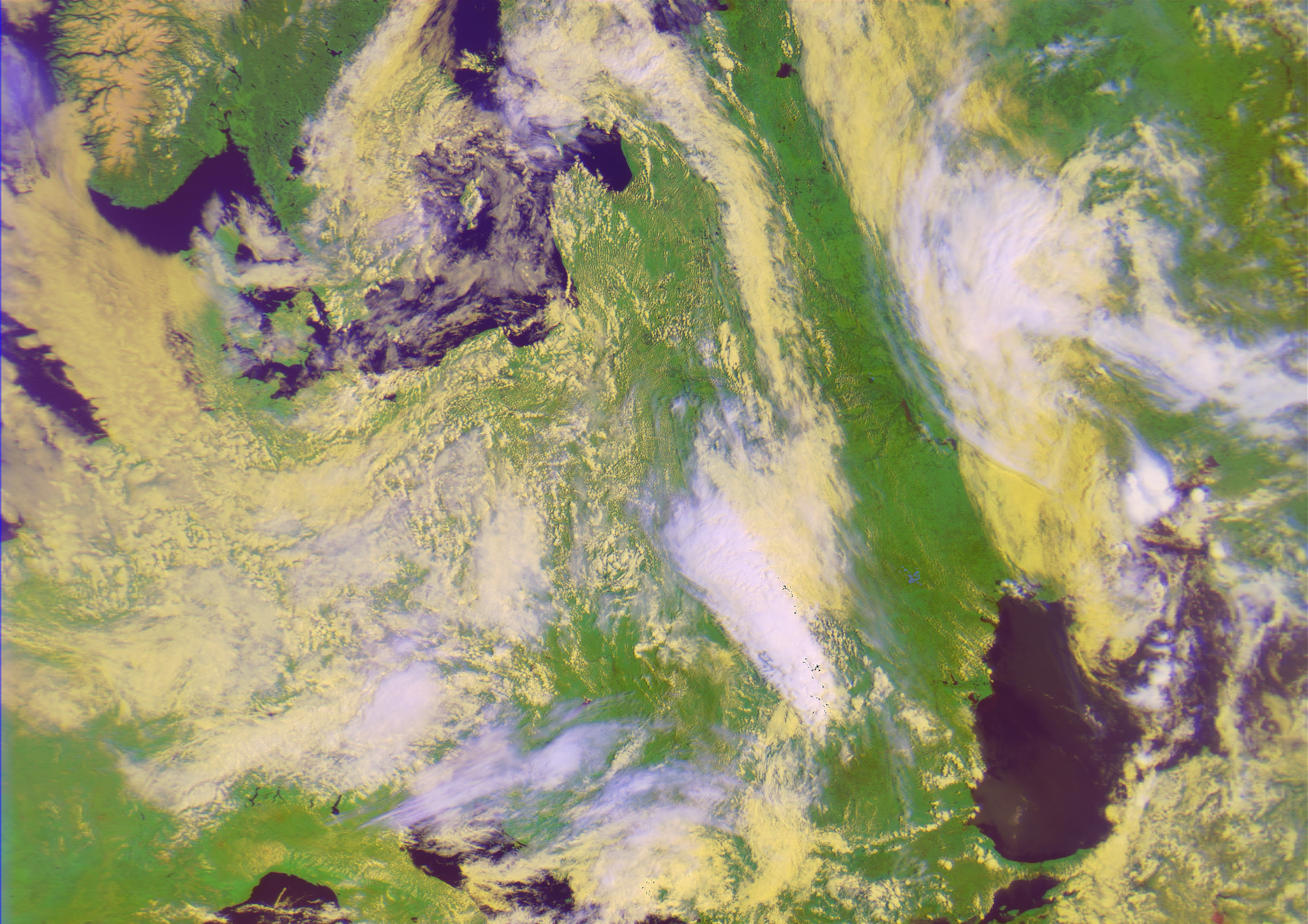 MSU-MR image from Meteor-M2 in RGB125, received in Poland near Jelenia Góra.